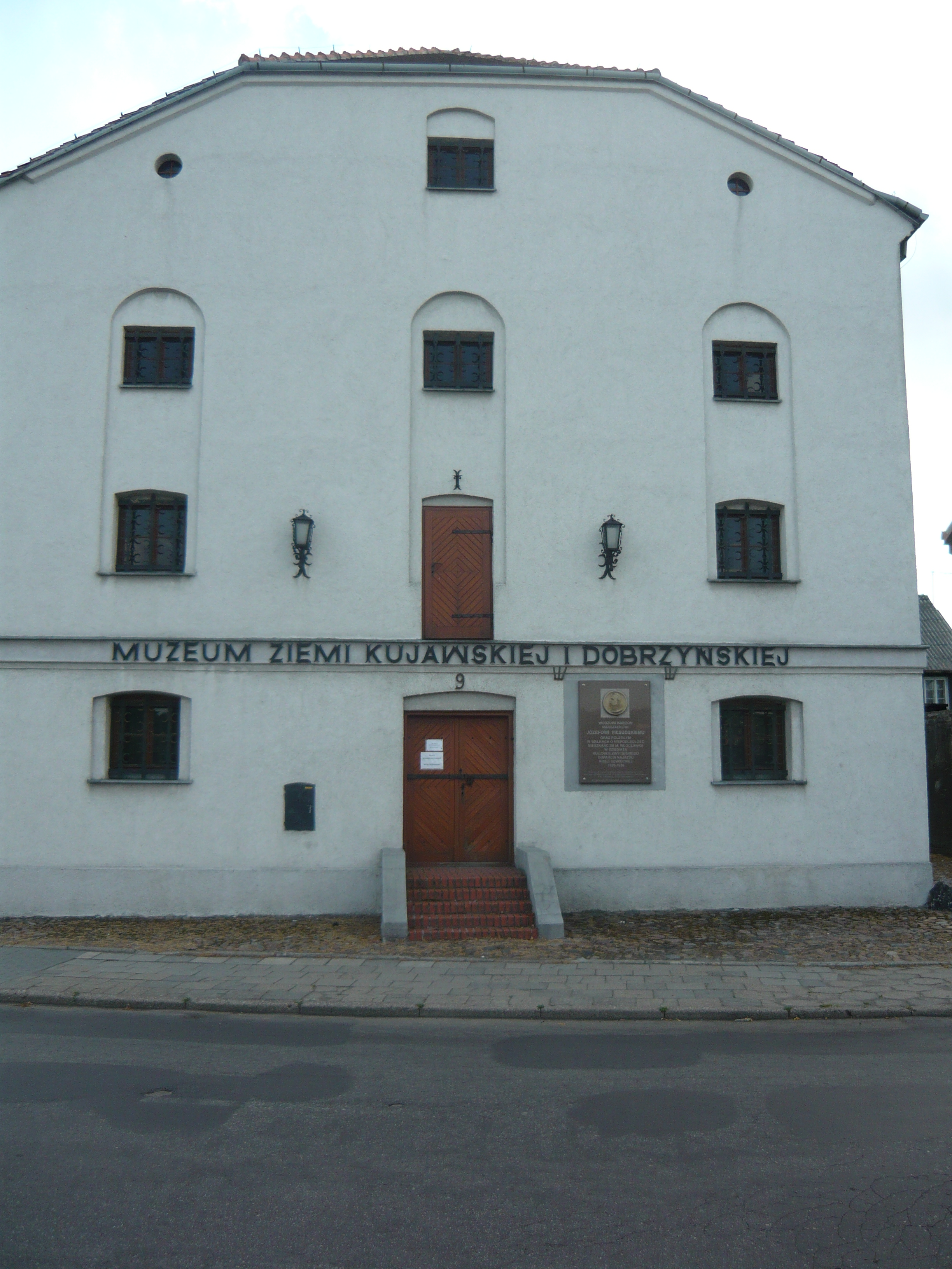 Museum of the Kuyavian and Dobrzyń Region in Włocławek. You can see the plaque and door leeds to outside on first floor.